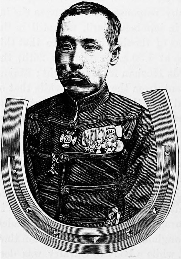 Lieutenenat-Colonel Fukushima